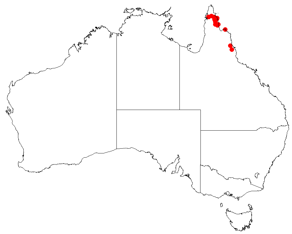 Parsonsia ferruginea Occurrence data for Australia from Australasian Virtual Herbarium downloaded 22 December 2018